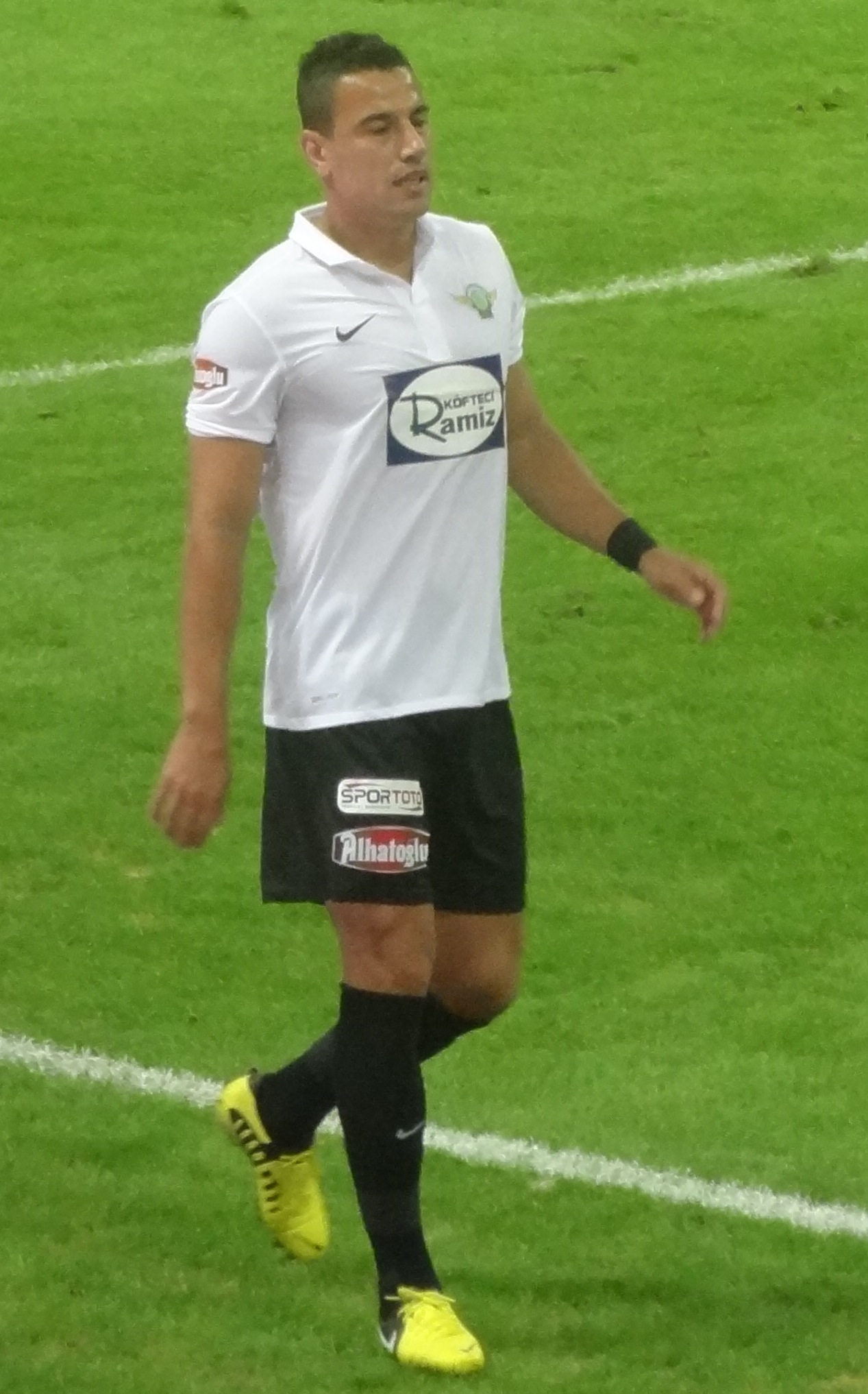 Çağdaş vs GS